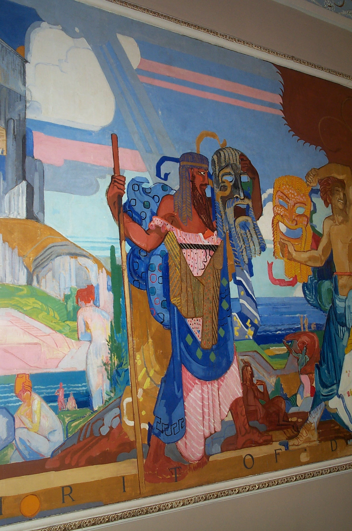 Photo is DCP_3488 by stu_spivack.